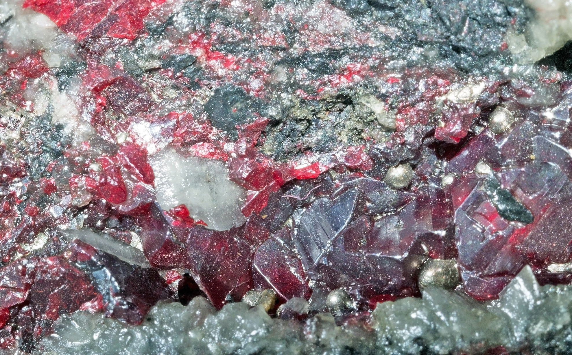 cinnabar, drops of native mercury, calcite : Almadén Mine, Almadén, Almadén District, Ciudad Real, Castile-La Mancha, Spain